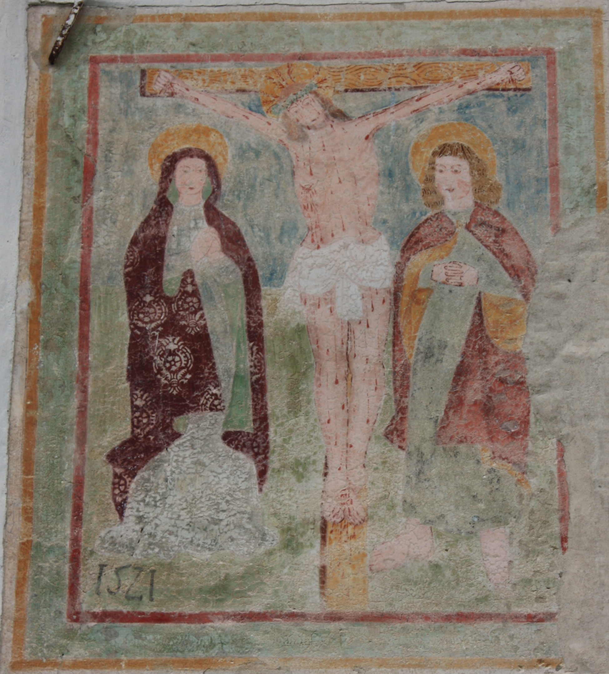 Parish church - crucifixion Locality: Förolach Community:Hermagor